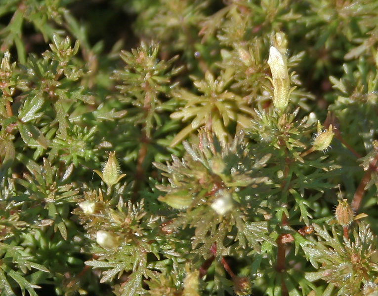 Asian or Dwarf Ambulia or Asian marshweed Limnophila sessiliflora in Hyderabad, India.